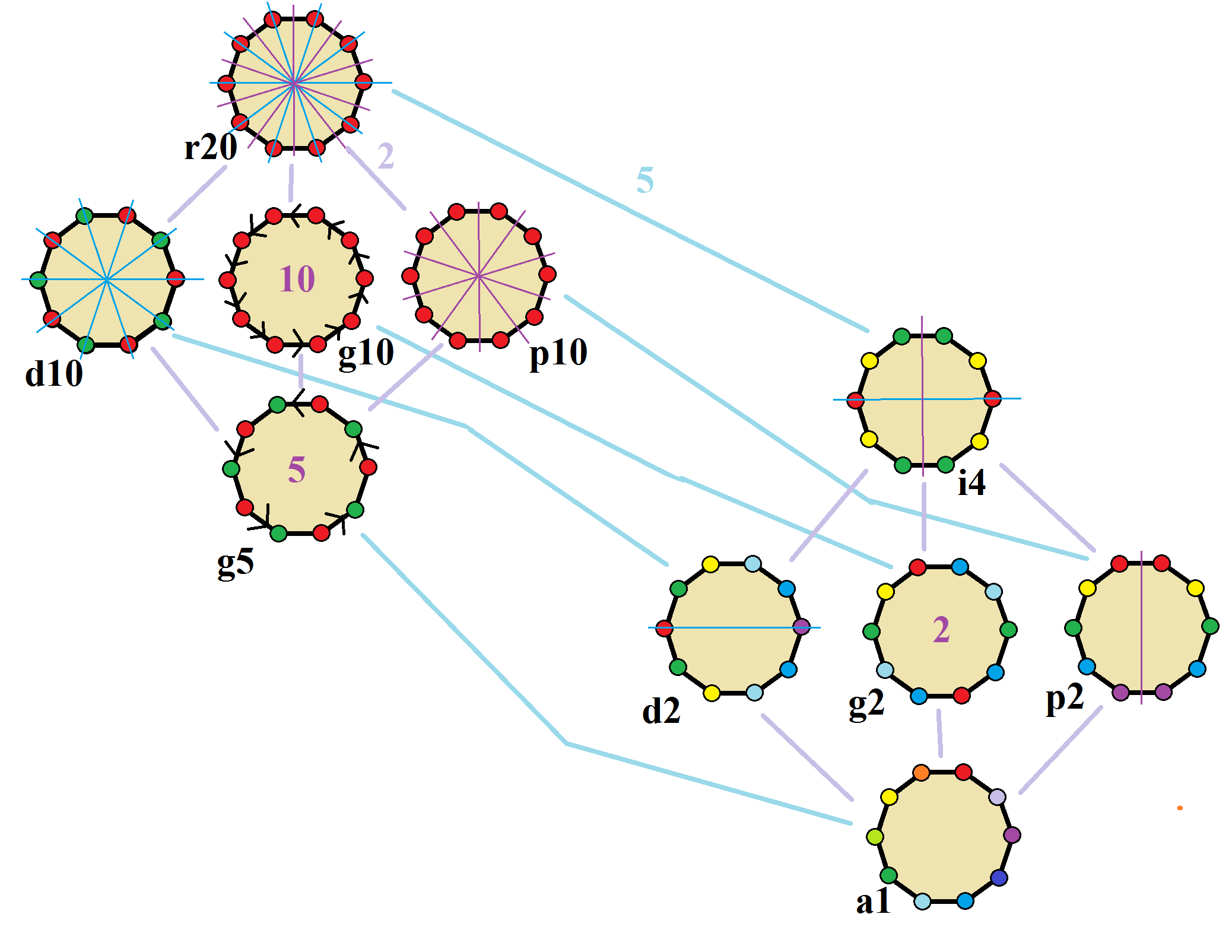 Decagon symmetryJohn Conway labels these lower symmetries with a letter and order of the symmetry follows the letter. He gives d (diagonal) with mirror lines through vertices, p with mirror lines through edges (perpendicular), i with mirror lines through both vertices and edges, and g for rotational symmetry. a1 labels no symmetry.